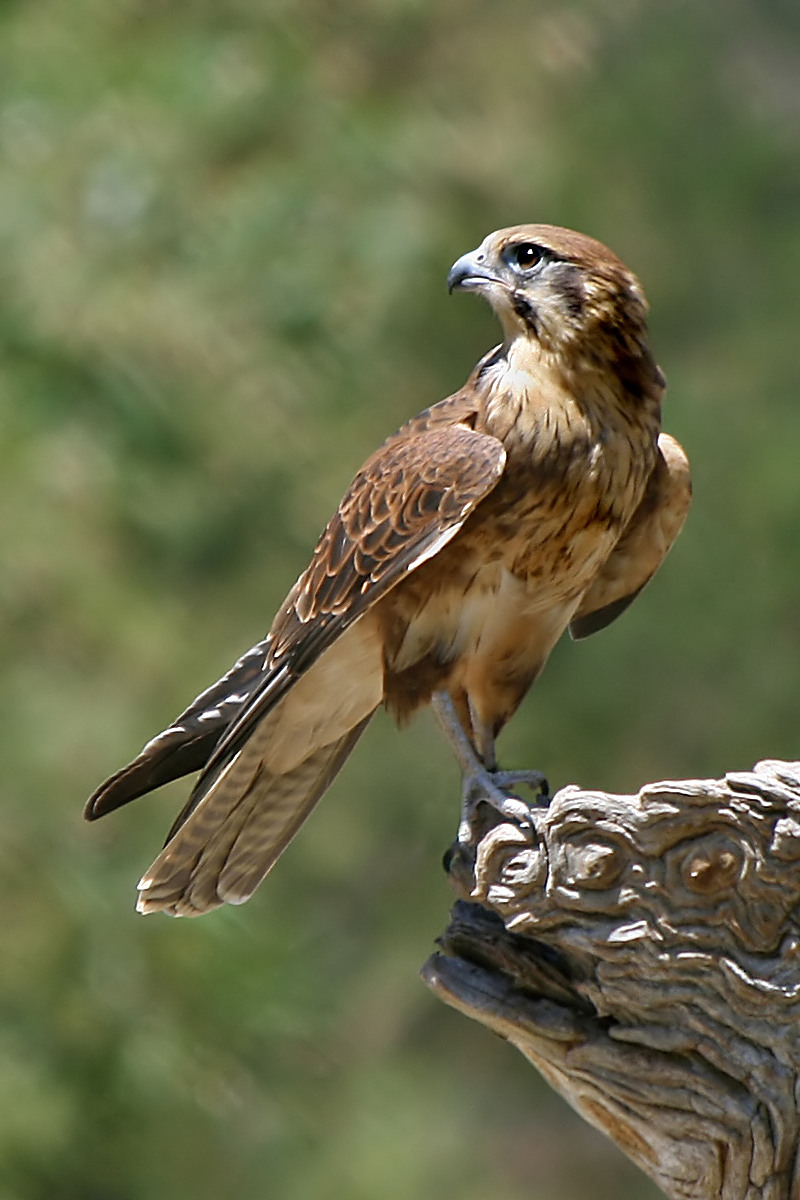 Brown falcon (Falco berigora), Victoria, Australia.